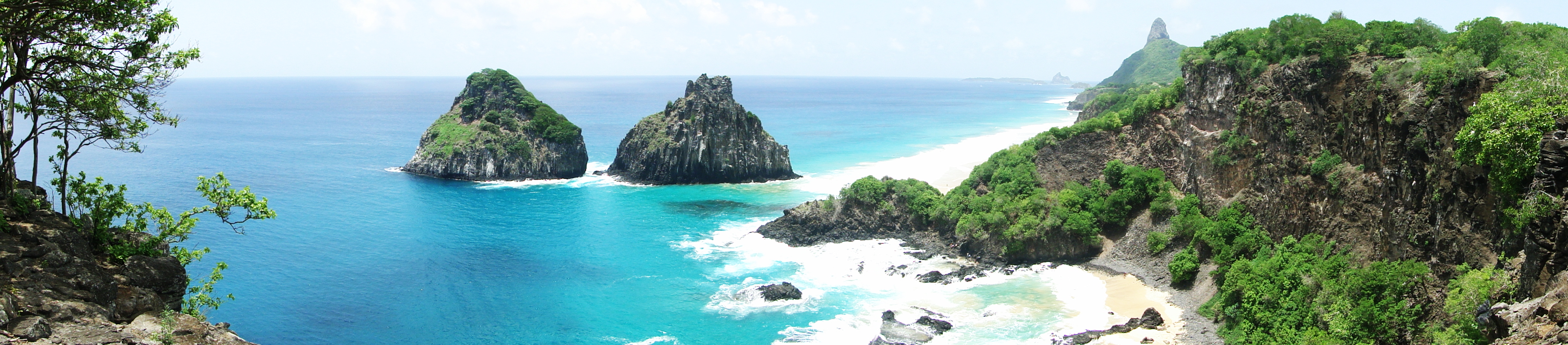 Panoramic view from "Morro Dois Irmãos" and "Baia dos Porcos", at Fernando de Noronha, Brazil.